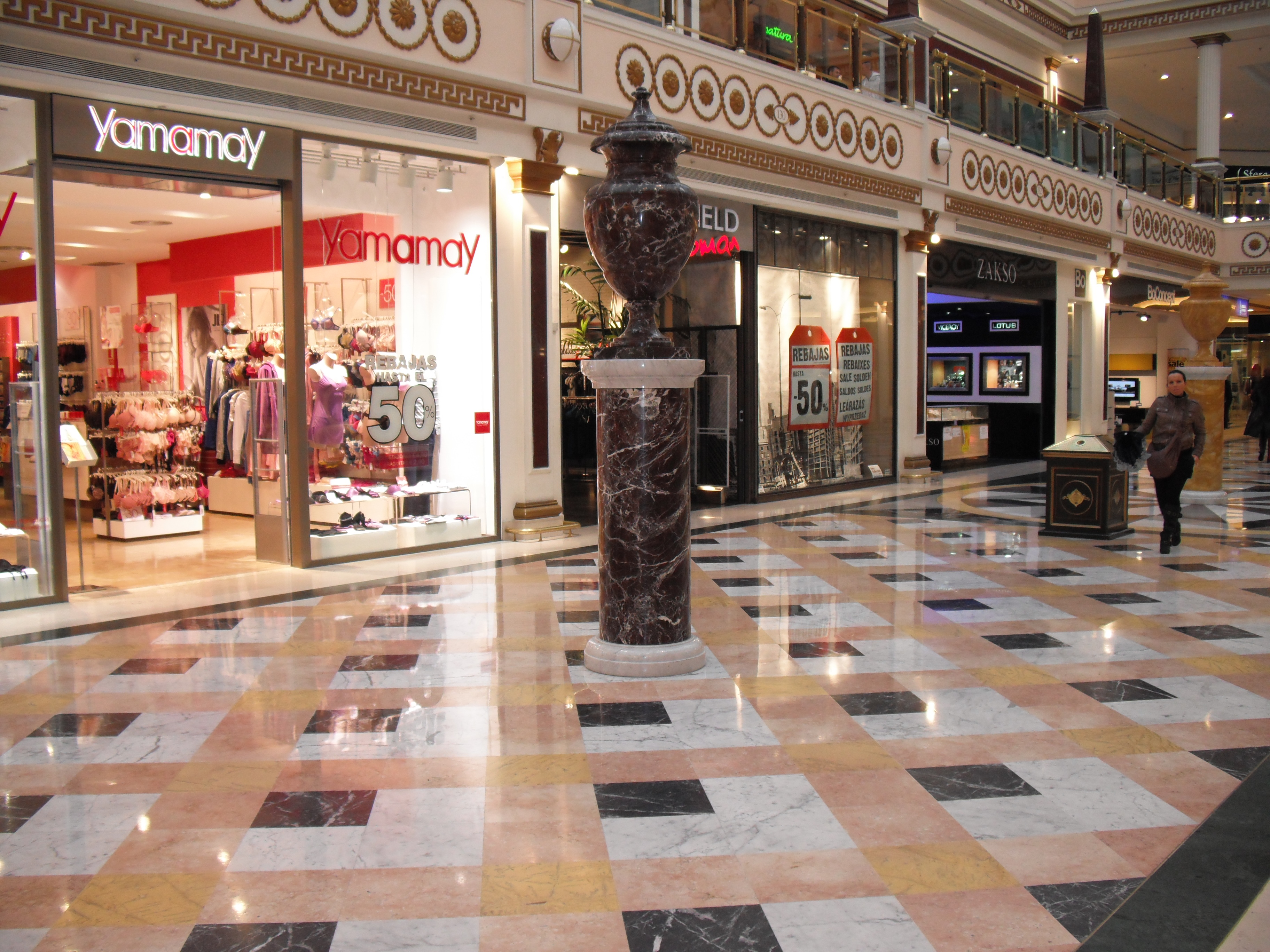 "Plaza Norte 2" shopping mall, San Sebastián de los Reyes, Community of Madrid, Spain.